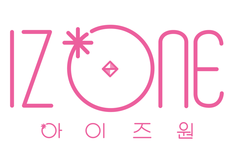 IZ*ONE logo